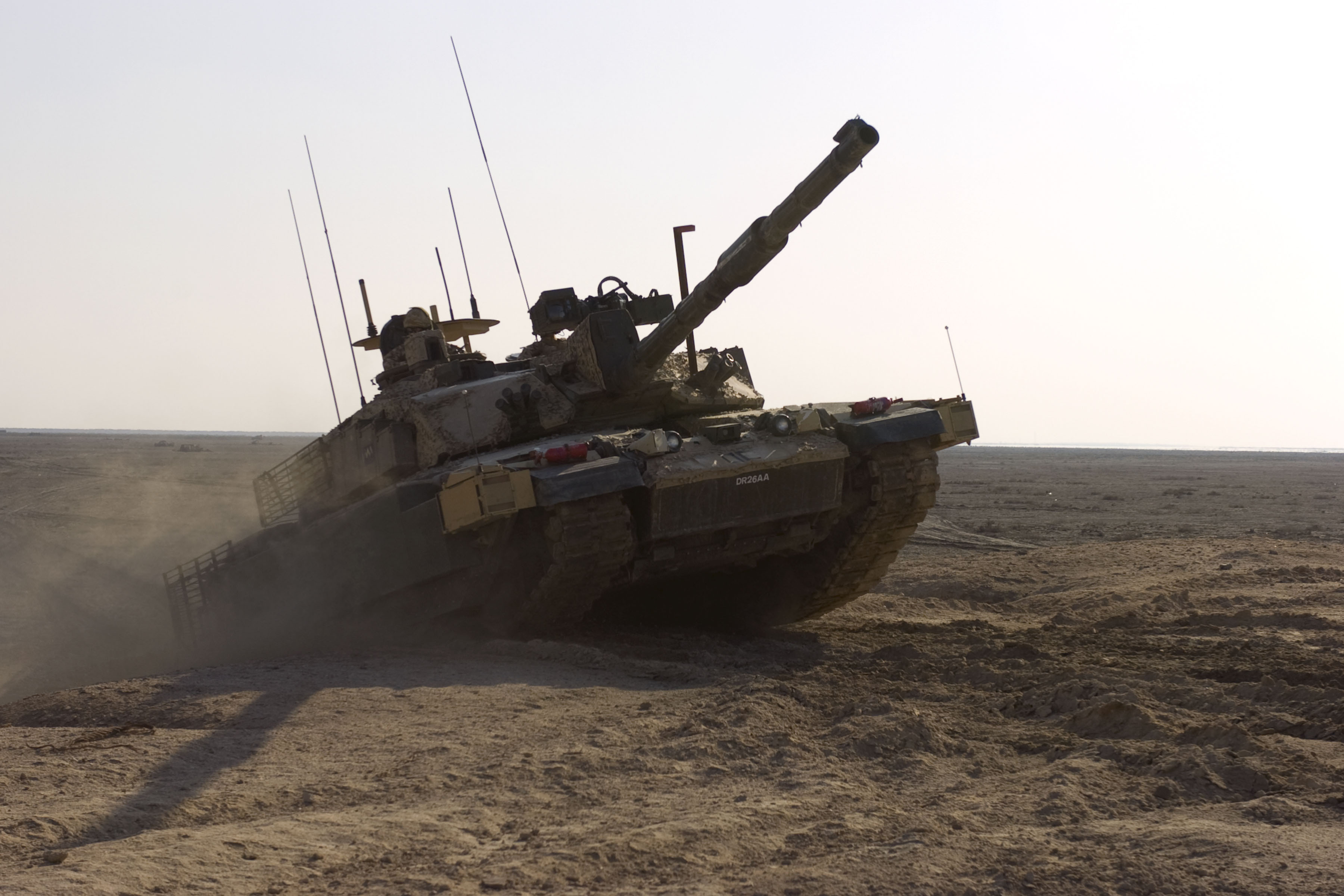 A British Royal Scots Dragoon Guards, Challenger II, main battle tank climbs an obstacle during a training exercise Nov. 17, 2008, in Basra, Iraq.